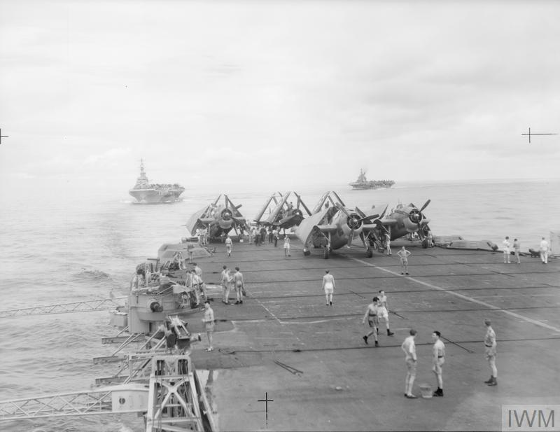 HMS VICTORIOUS and IMPLACABLE seen above Avenger and Chance-Vought Corsair aircraft of HMS FORMIDABLE as the ships turned into position. At this time the three aircraft carriers were operating off the shore of Japan.